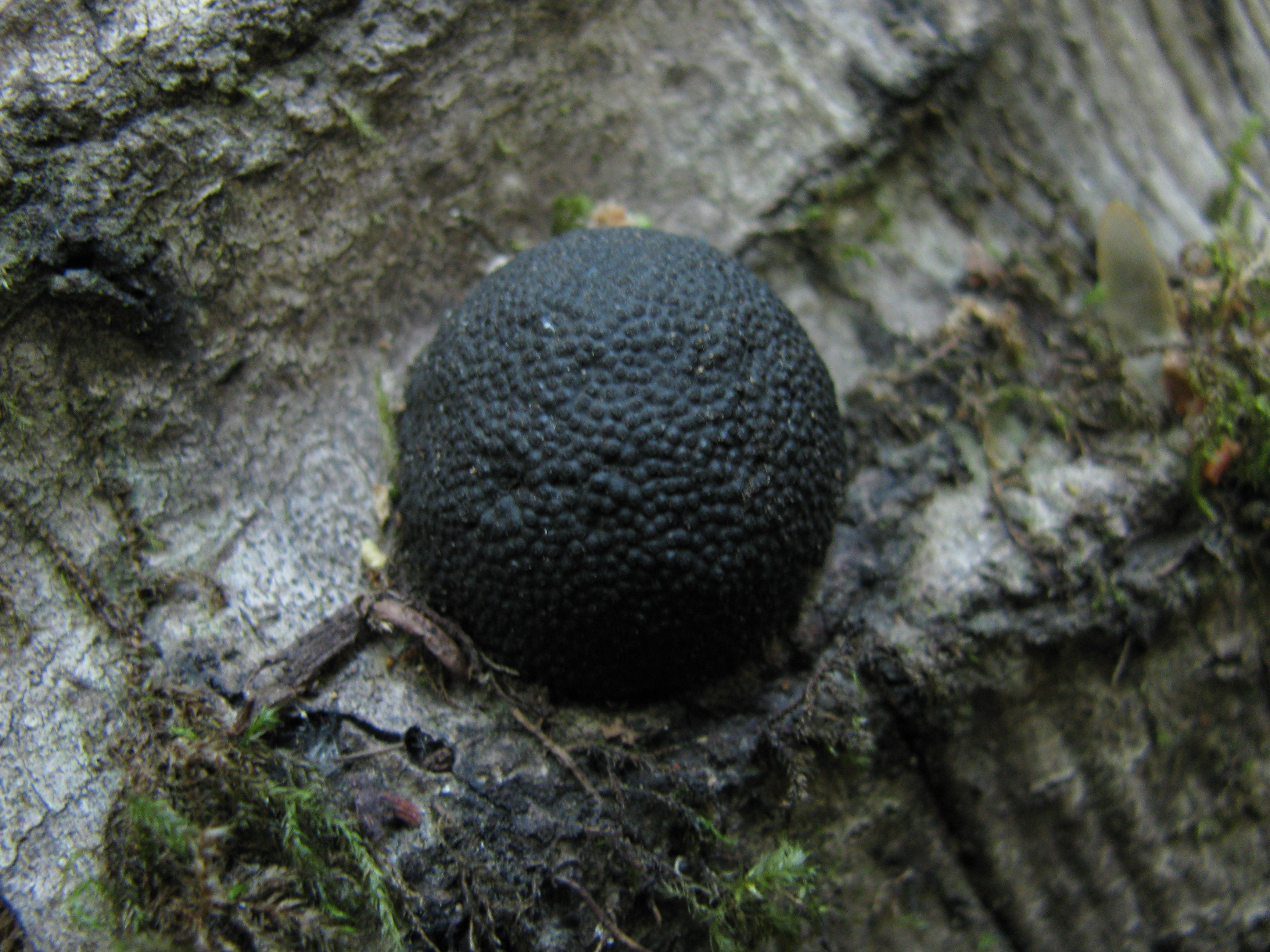 Annulohypoxylon thouarsianum (Lév.) Y.-M. Ju, J.D. Rogers & H.-M. Hsieh Location: Jackson State Forest, Mendocino Co., California, USA For more information about this, see the observation page at Mushroom Observer.